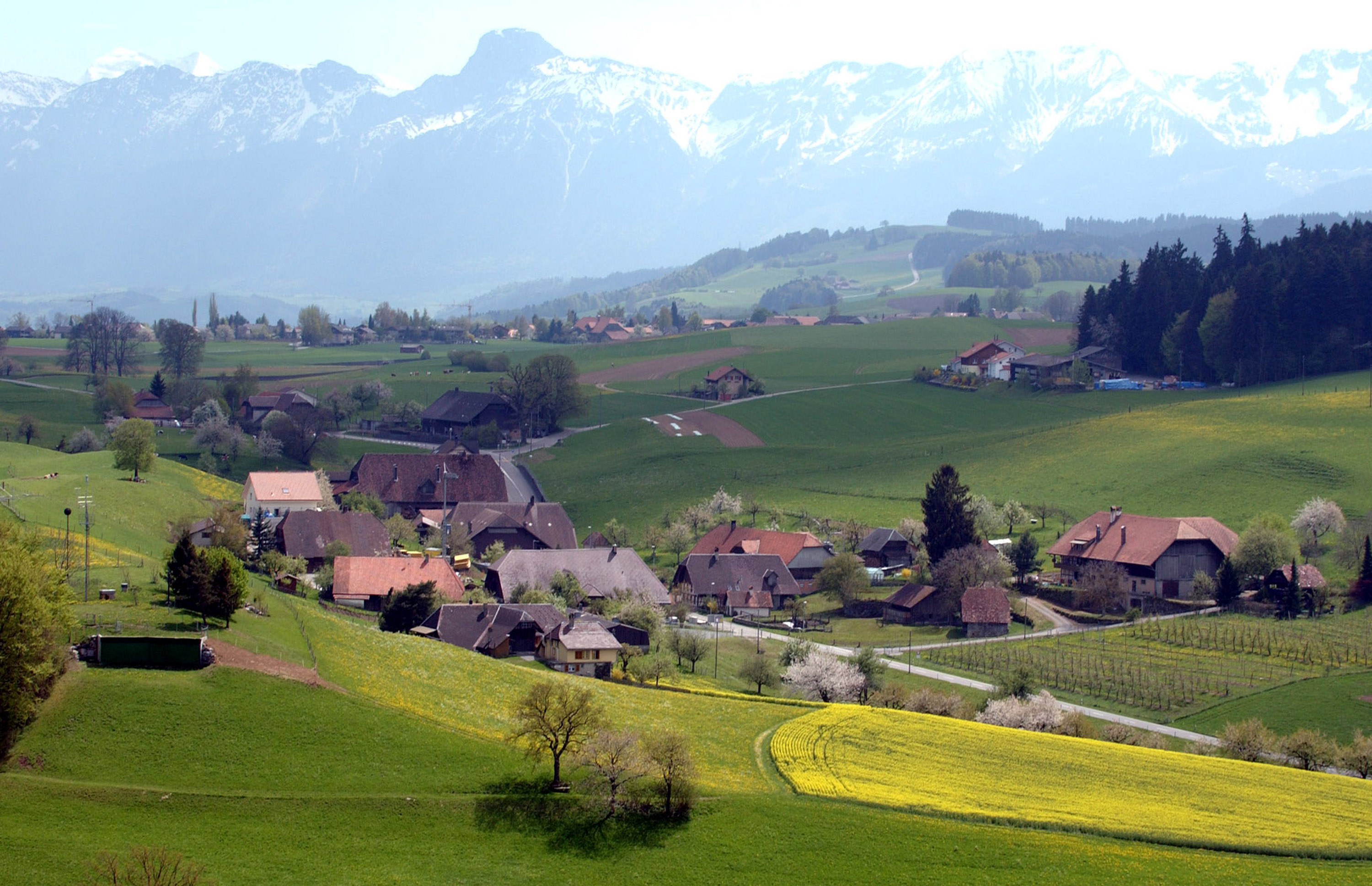 village of Englisberg, south-eastern view towards the Gantrisch